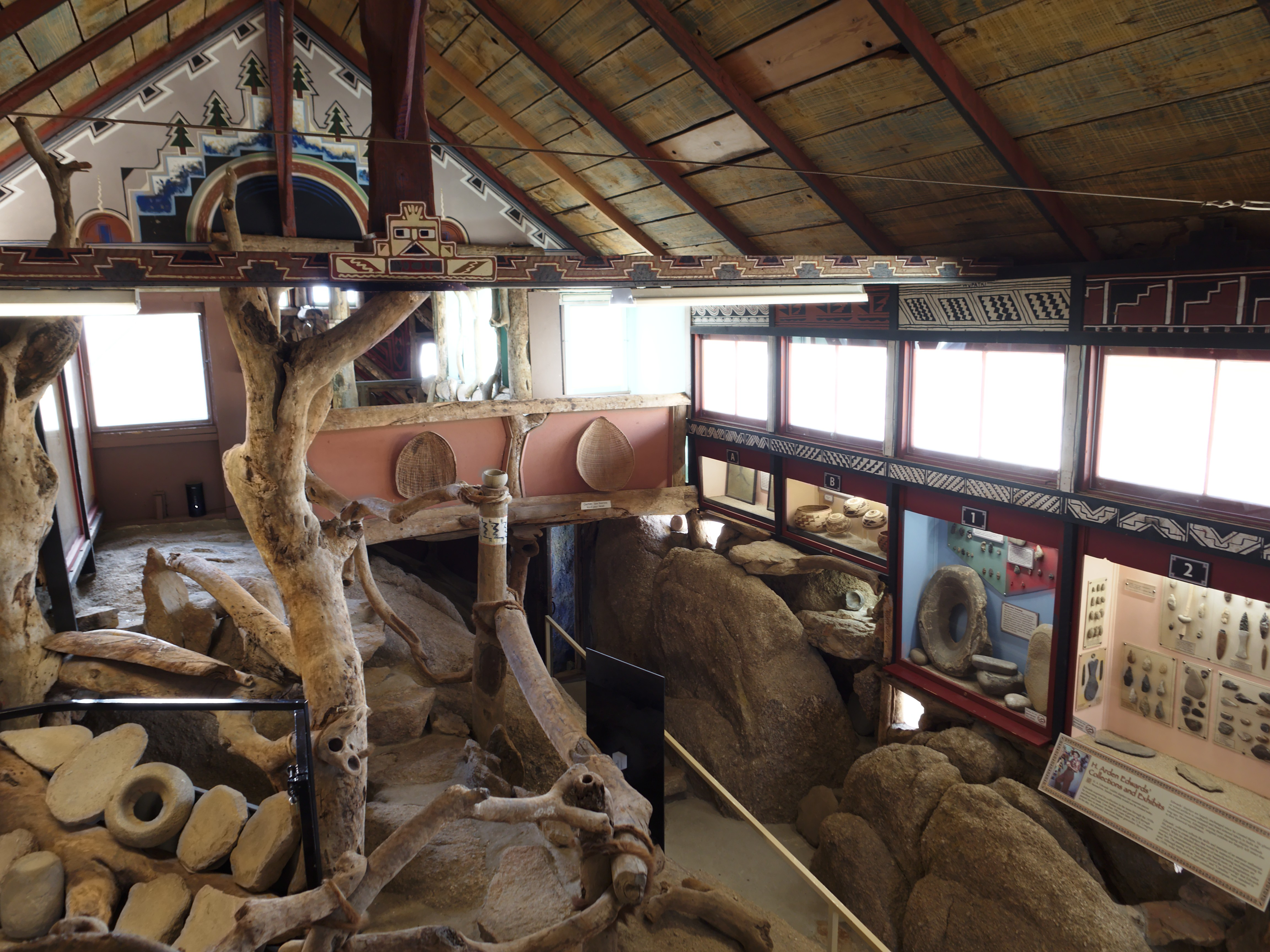 Antelope Valley Indian Museum's California Hall, looking south